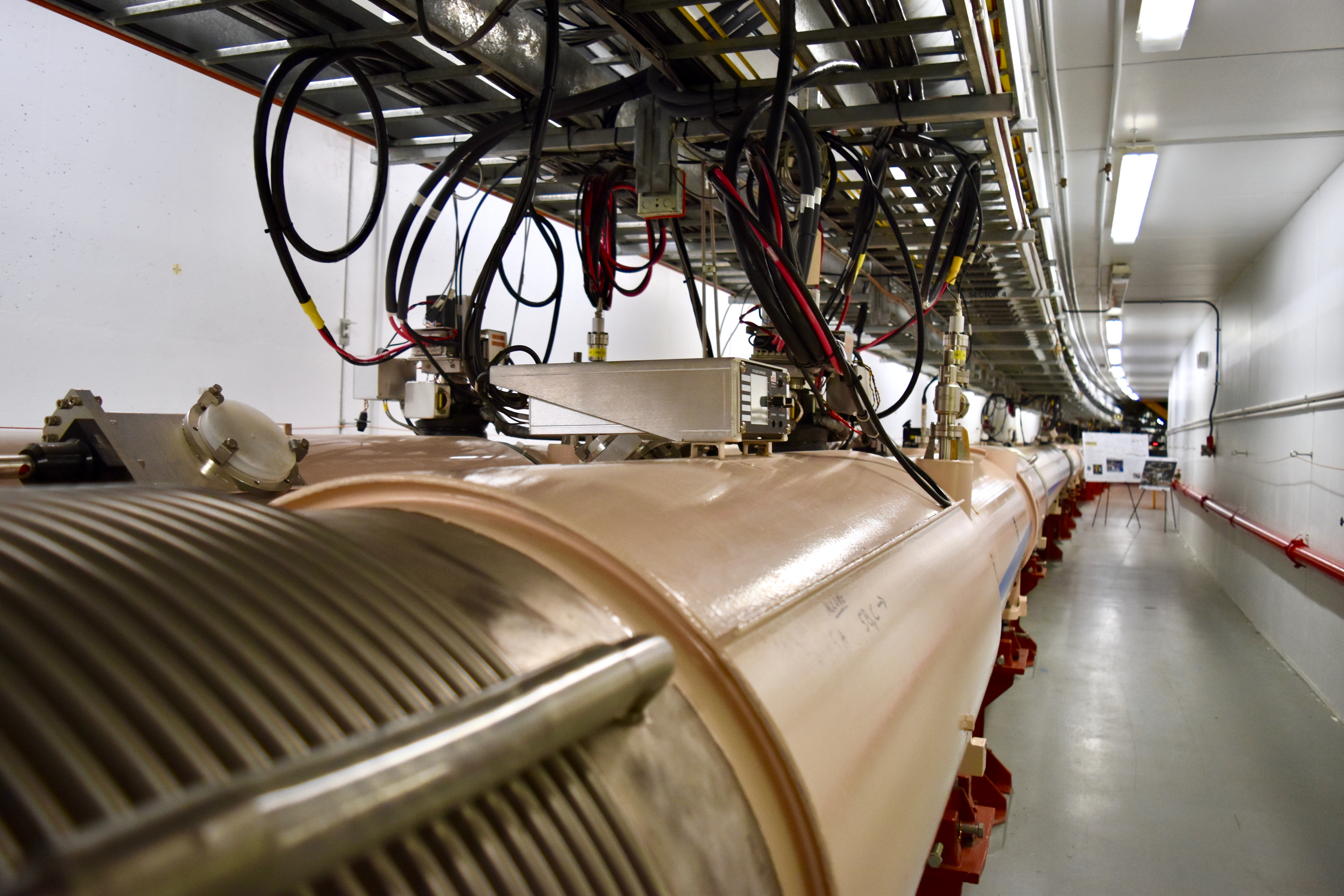 A section of Relativistic Heavy Ion Collider (RHIC) at Brookhaven National Laboratory (BNL) in United States